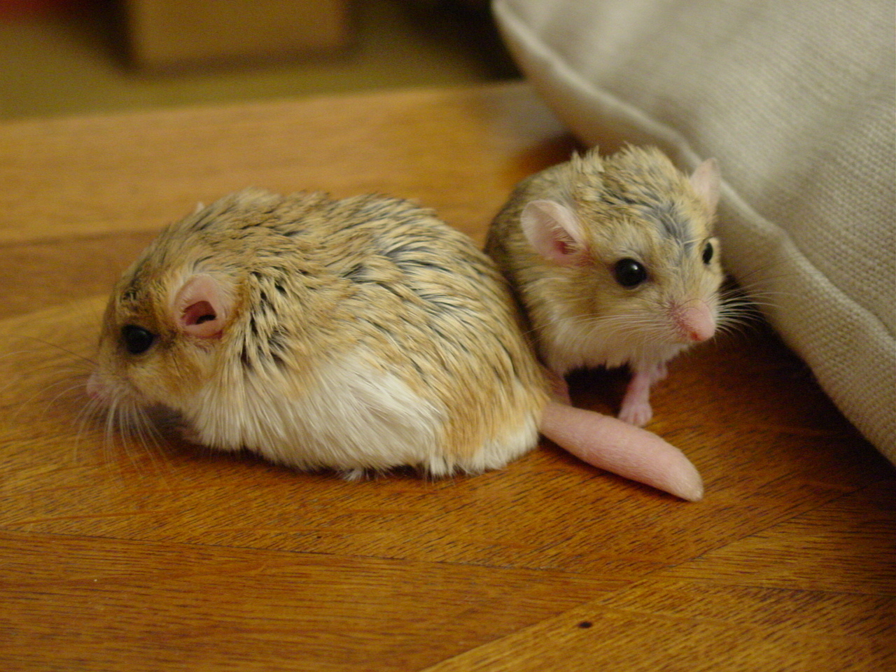 Fat-tailed Gerbils (Pachyuromys duprasi).